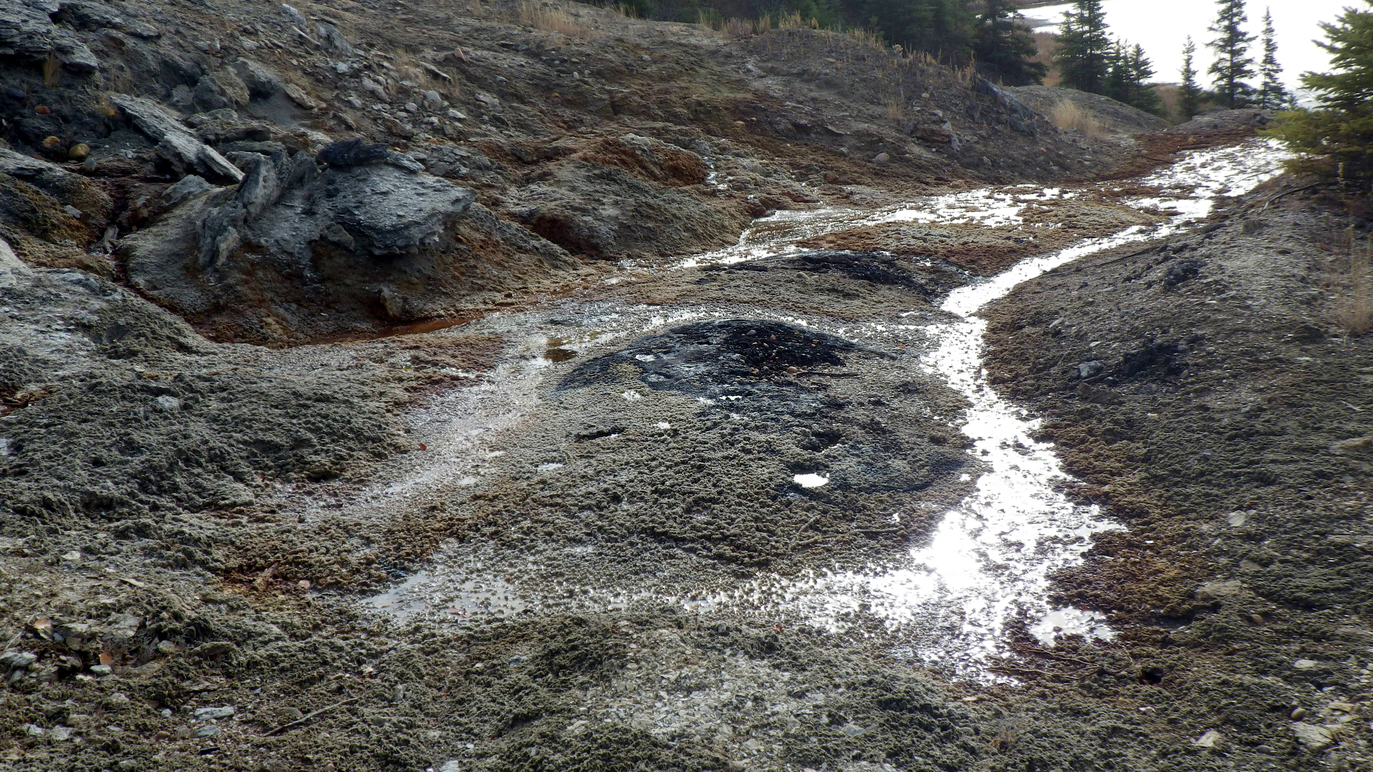 A salt spring at La Saline Natural Area shows hoof-prints of animals that come to obtain salt.